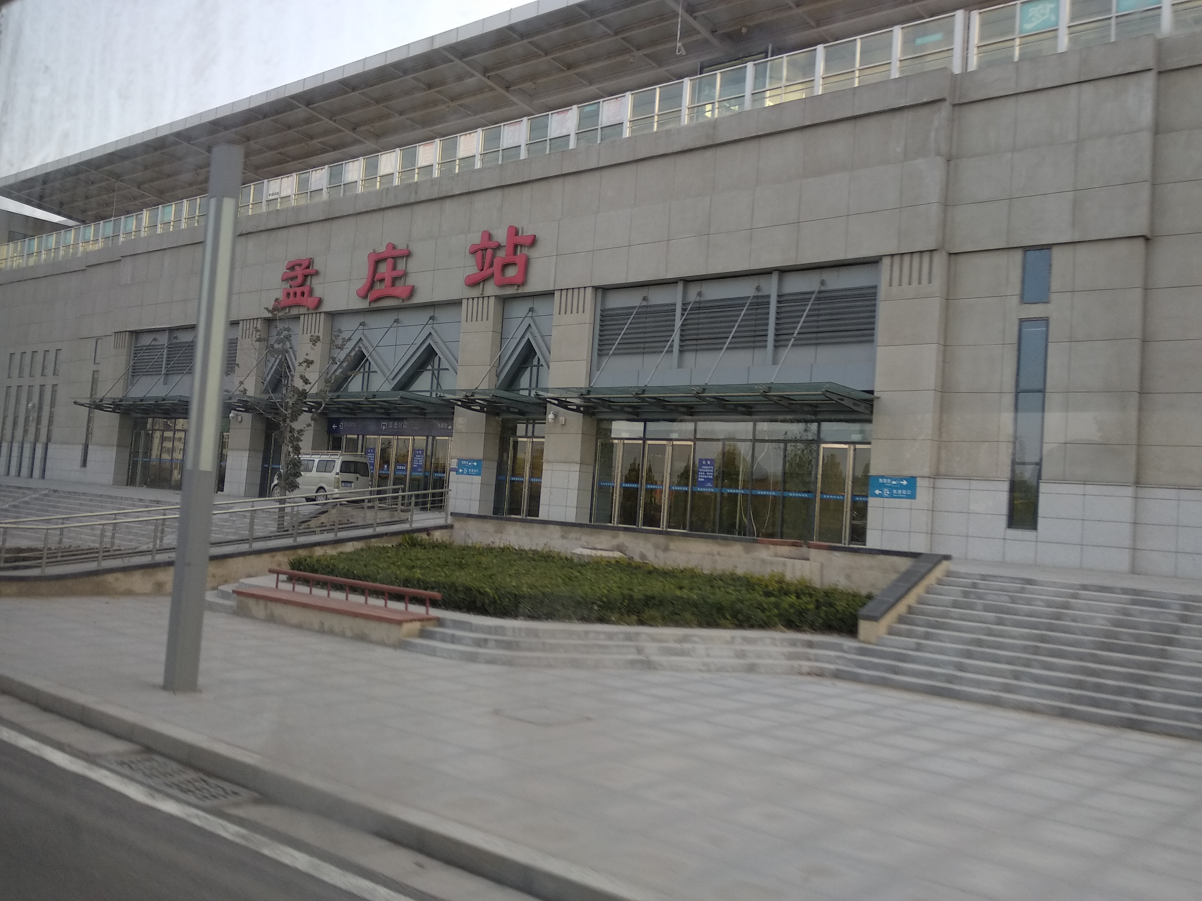 Here is the building of Mengzhuang Railway Station on Zhengzhou-Xuchang Inter-city Railway, which seems to be closed now. There are 3 inter-city railways in Henan, however, maybe there are relatively larger passenger flow at only Wuzhi Station and Xiuwu Xi (West) Station on Zhengzhou-Jiaozuo Inter-city Railway, among the 9 intermediate stations on these railways.